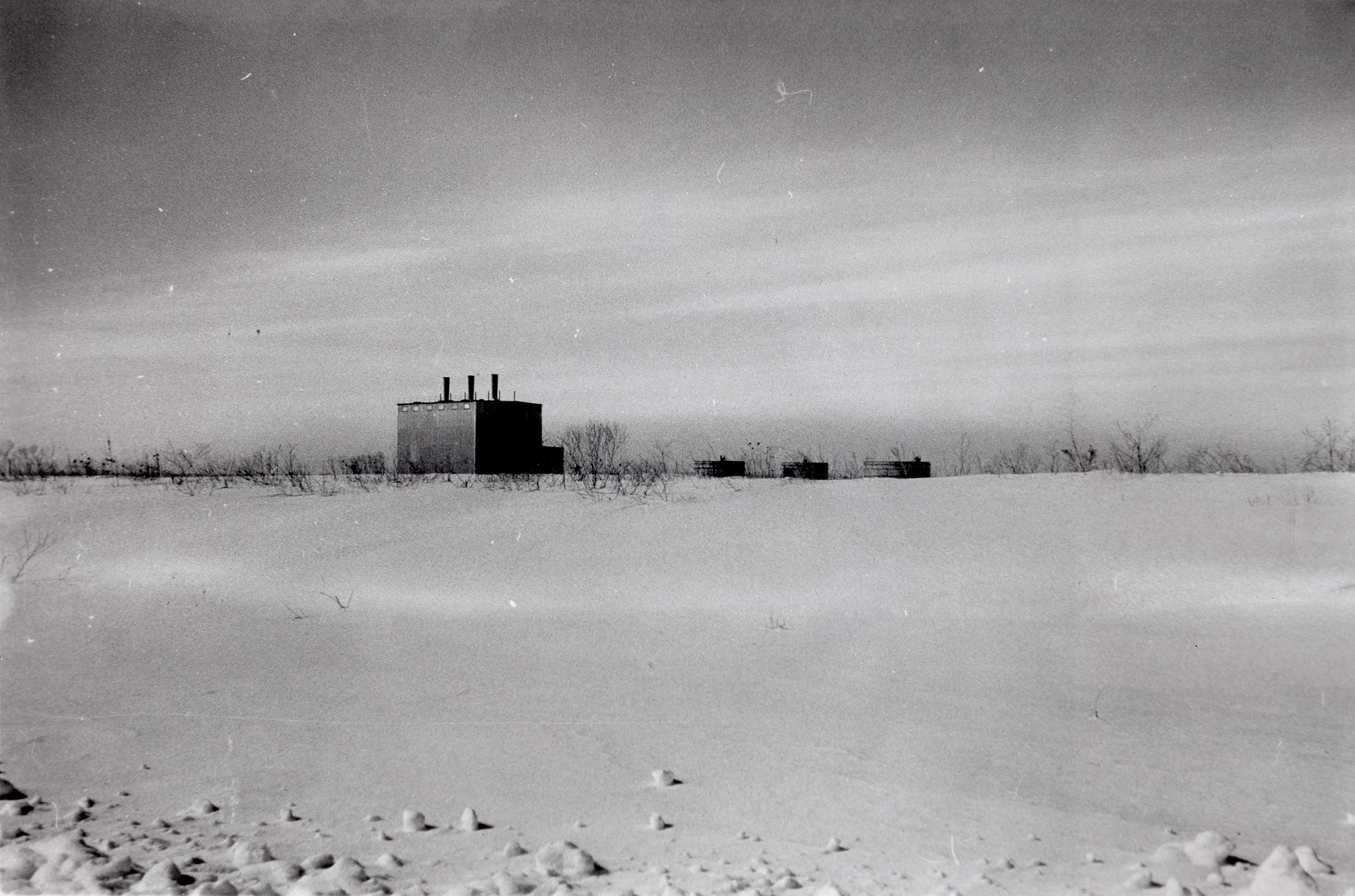 Snow blankets the never used power plant and fuel storage tanks at the Bong Air Force Base site months after the base project was cancelled. Other information The image can be seen used on page 9 of the Milwaukee Journal on March 24, 1960.